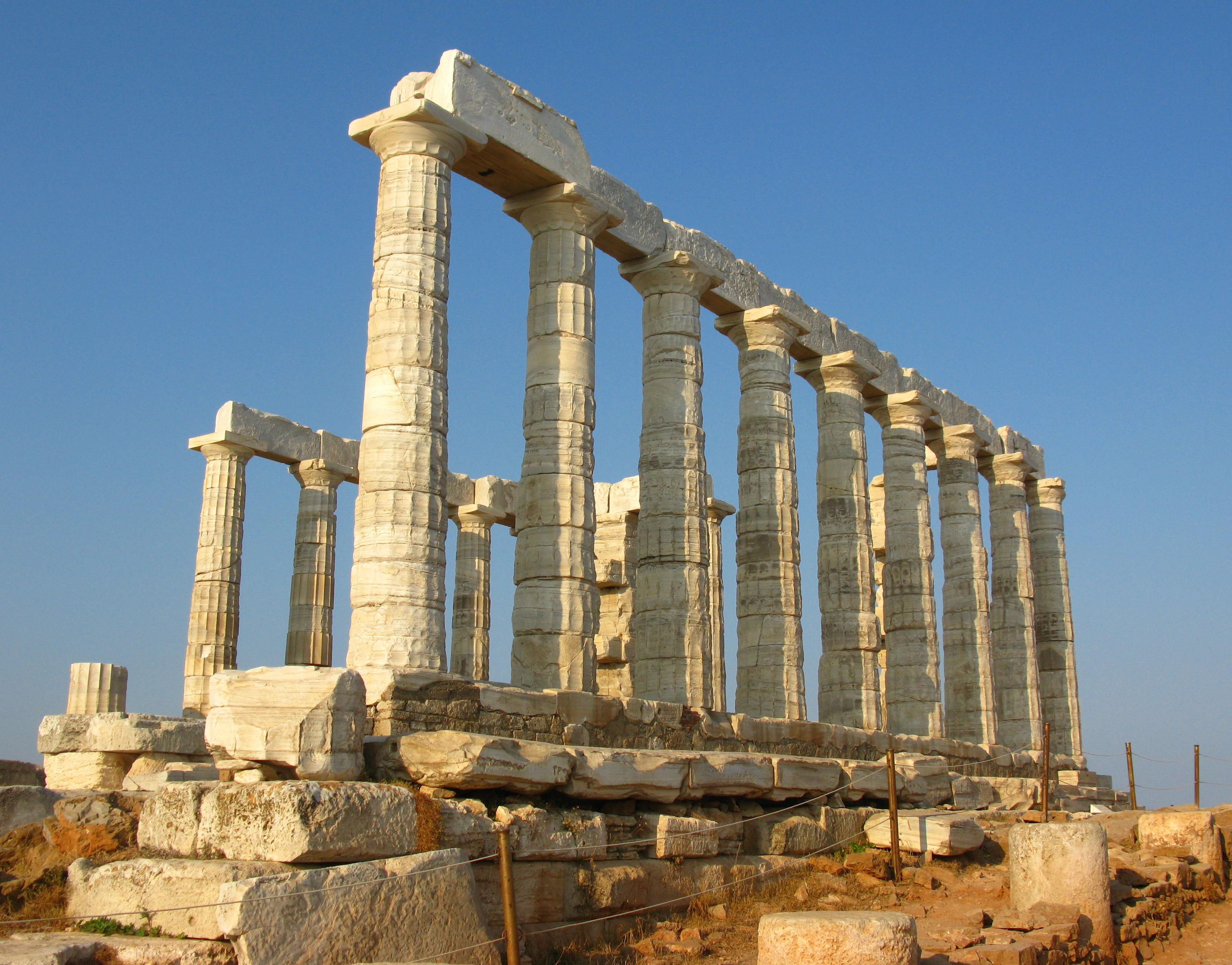 Temple of Poseidon, Cape Sounion, Greece